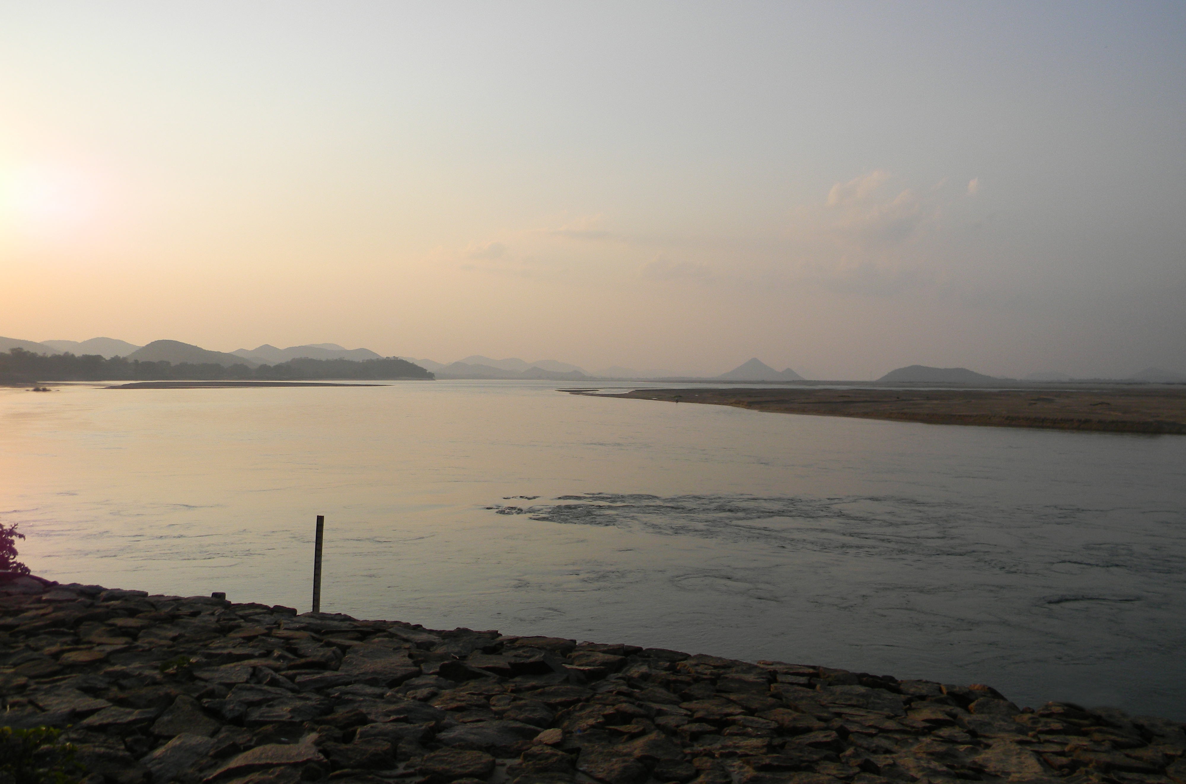 Mahanadi River_Lord Nilamadhab_Kantilo_Nayagarh This media file is uploaded with Odia loves Wikipedia English |italiano |македонски |മലയാളം |ଓଡ଼ିଆ +/−